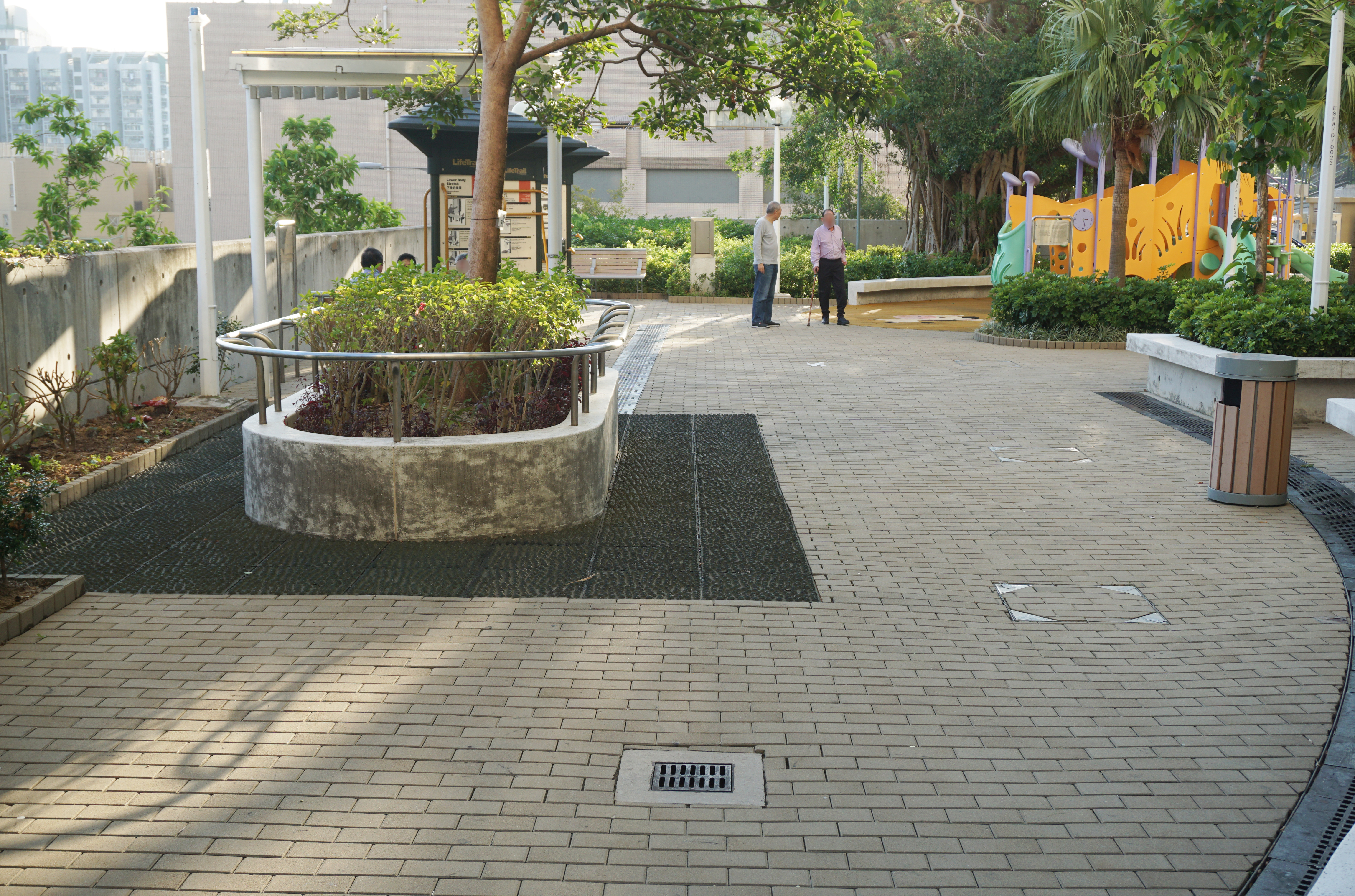 Shatin Pass Estate in Tsz Wan Shan, Hong Kong.